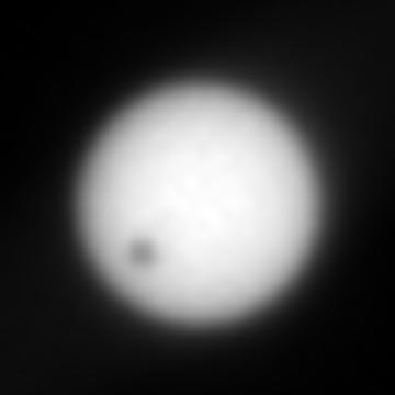 A transit of Deimos from Mars: Deimos is in transit across the Sun, as seen from Mars by Mars Rover Opportunity on March 4, 2004, at 03:03:43 UTC Earth time. In the photo, the Sun has angular diameter 20.6' while Deimos only has 2.5'. Phobos by contrast usually has an angular diameter of around 12' as seen from Mars. Deimos took a little more than a minute to transit the Sun, passing well off center and moving downward and to the right; more central transits can take up to two minutes from start to end.